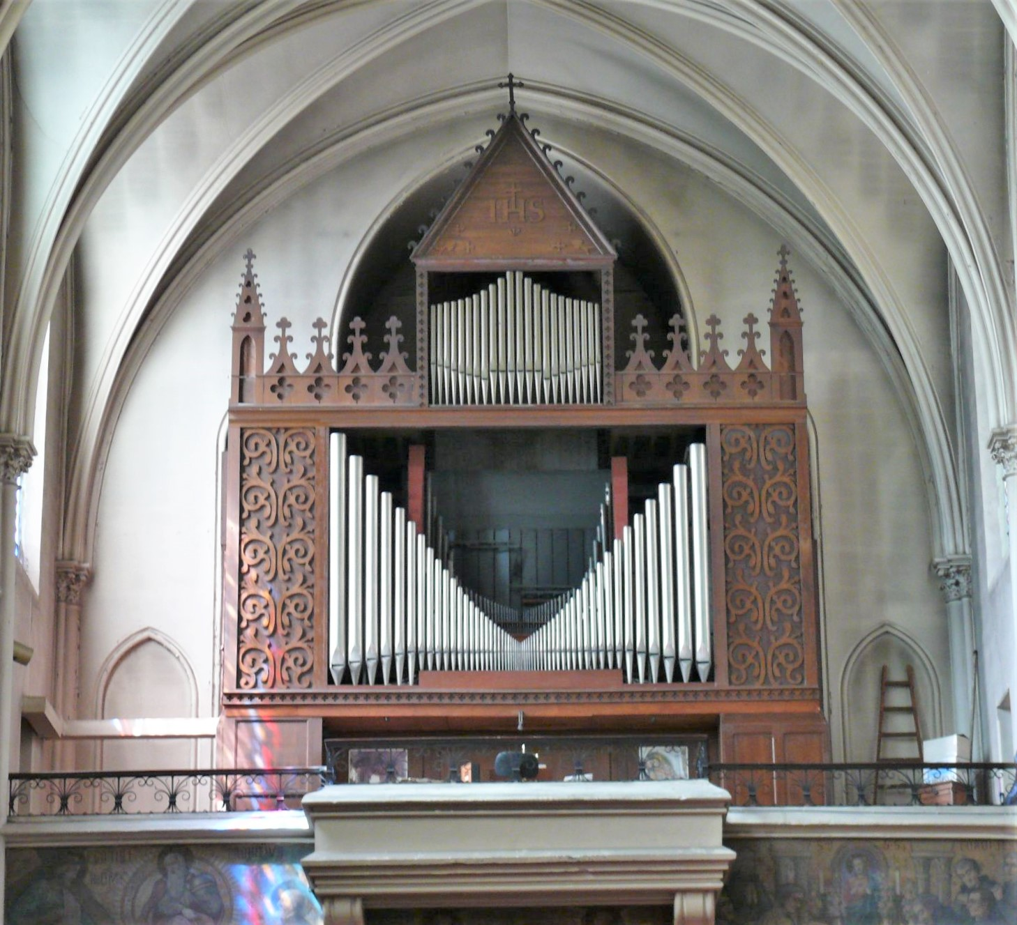 Saint-Joseph-Artisan's church in Paris (Paris X, France)